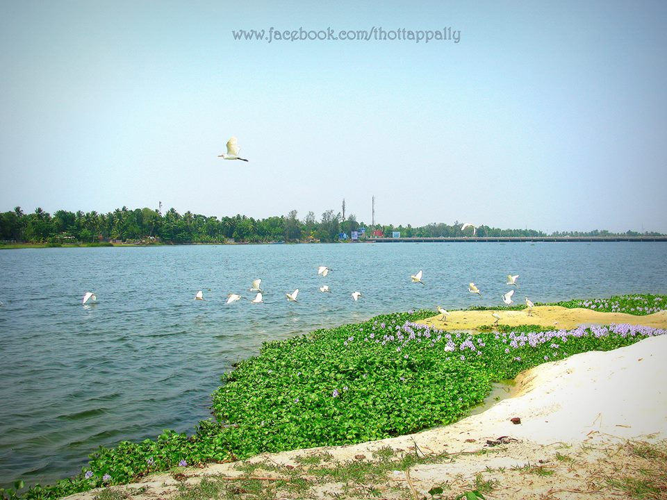 A view from Thottappally Beach. Thottappally Spilway and Canal can be seen. This is a man made canal by British regime.